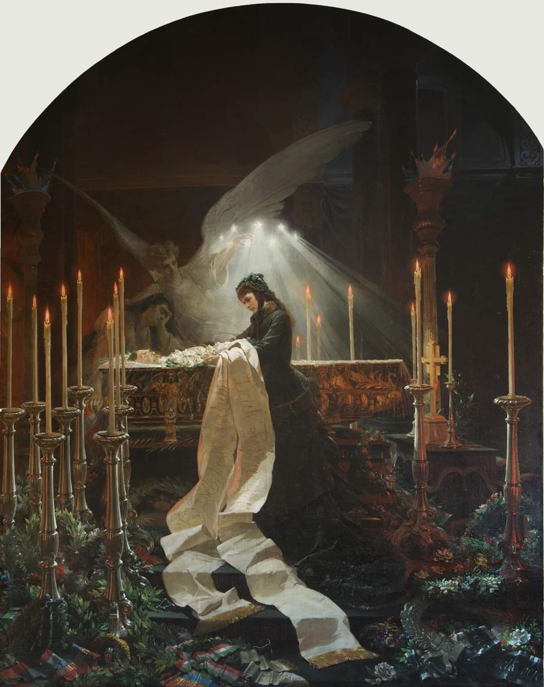 Empress Elisabeth of Austria with Ferenc Deak